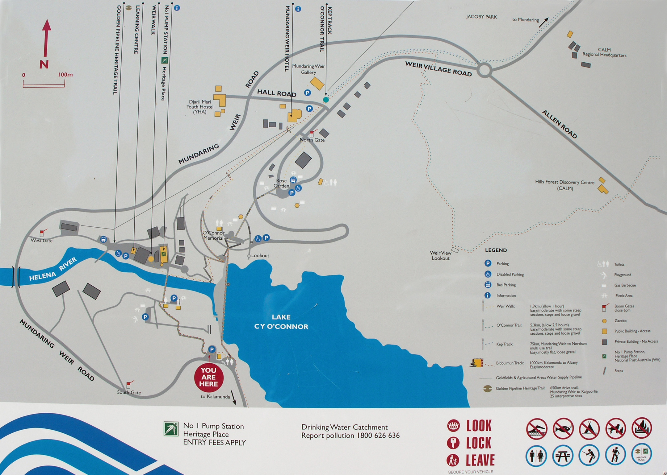 Sign at Mundaring Weir in the Darling Range, Perth, WA. Taken by me SeanMack.